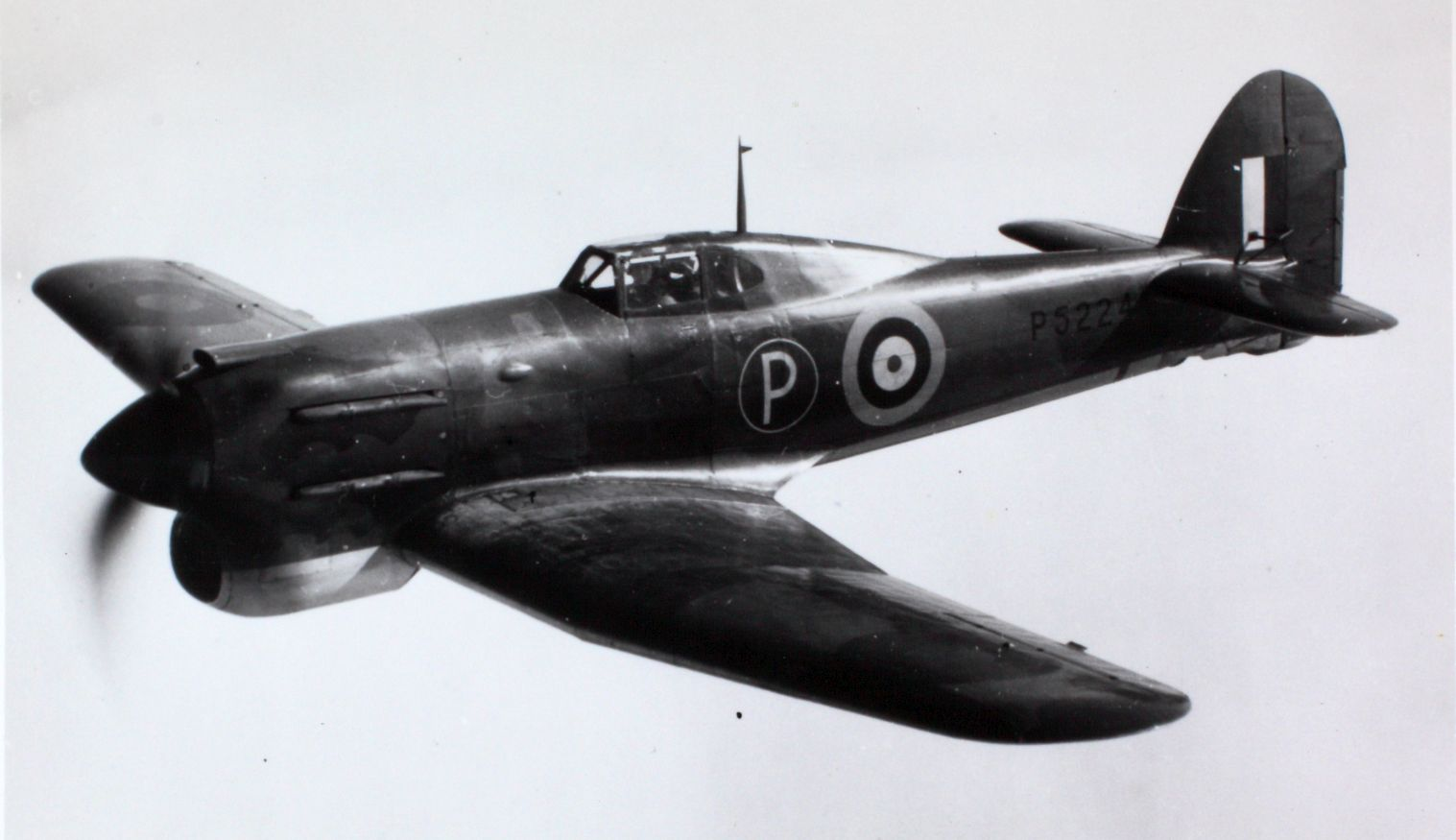 Image from the Charles Daniels Photo Collection album "British Aircraft." SOURCE INSTITUTION: San Diego Air and Space Museum Archive